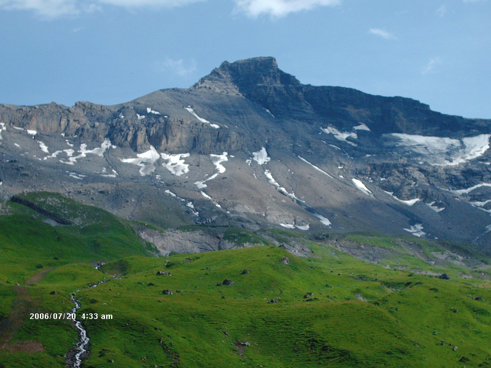 Steghorn mountain, Bernese alps, Switzerland Photo taken by Irmgard on July 12, 2006